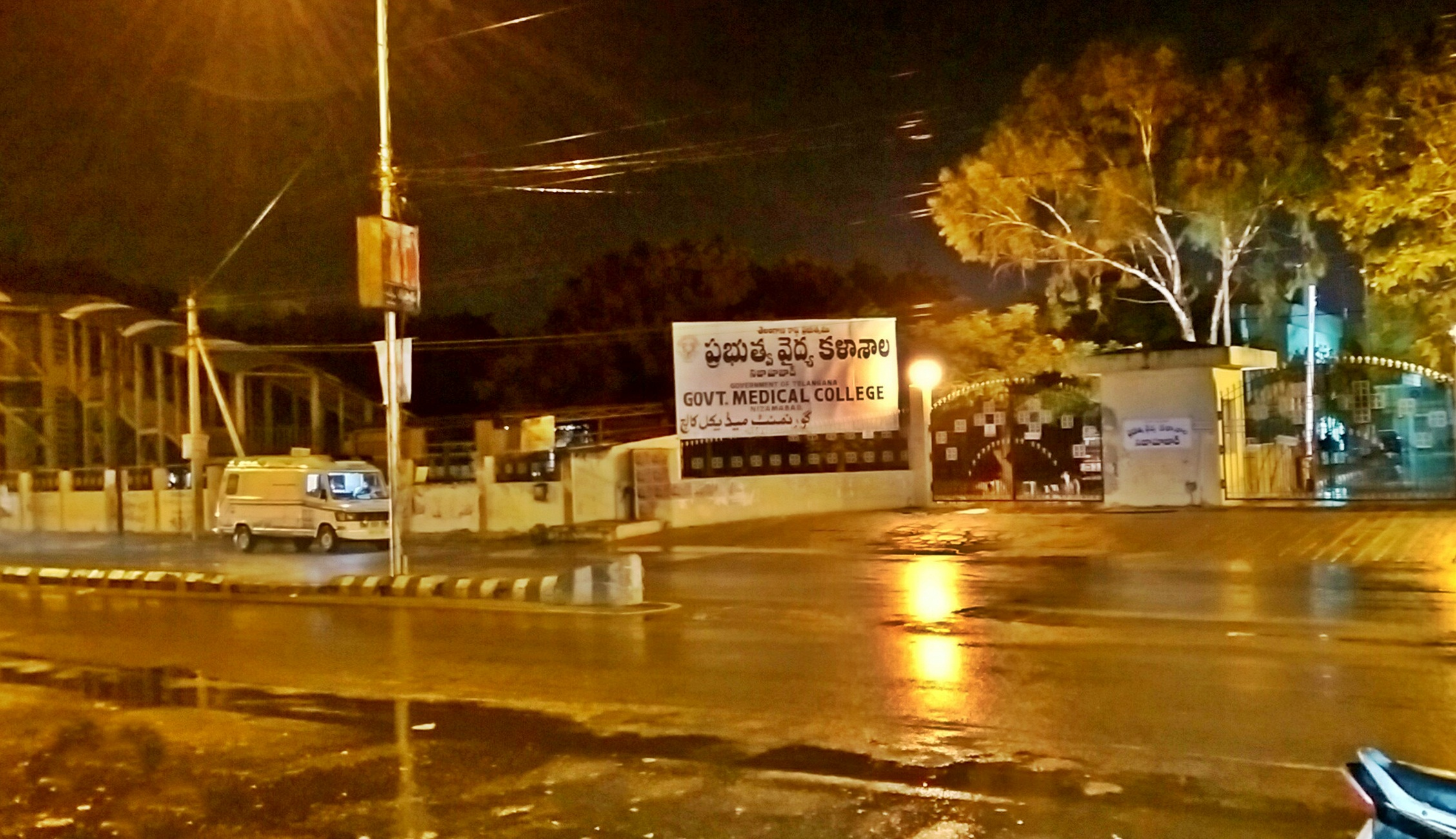 Main entrance gates of Government Medical College of Nizamabad city,Telangana state. Other information No